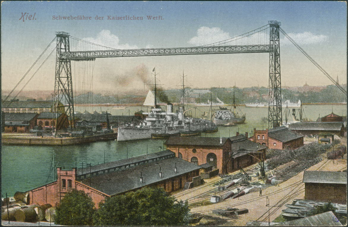 Transporter bridge (also known as a ferry bridge or aerial transfer bridge) of the Imperial Shipyard in Kiel-Ellerbek around 1910